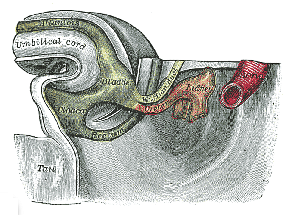 Tail end of human embryo thirty-two to thirty-three days old. (From model by Keibel.)